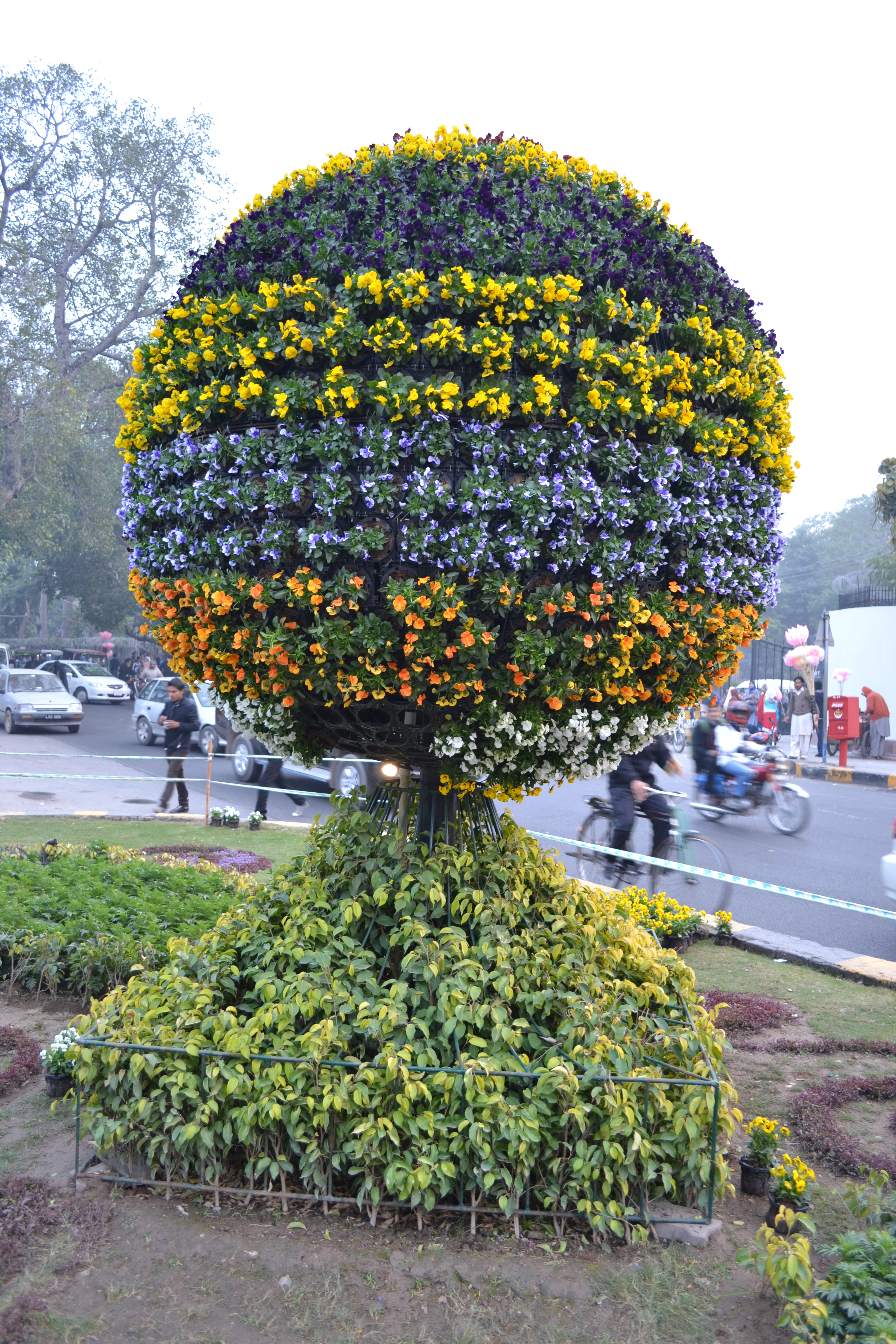 Flowers on the Mall, Lahore